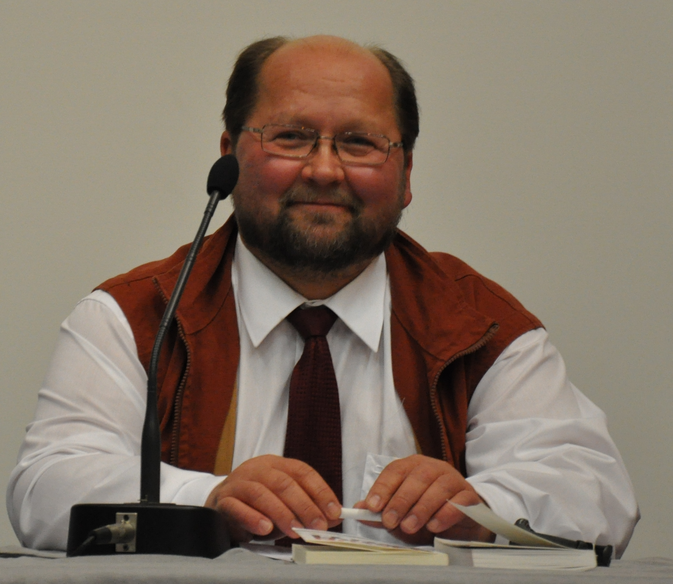 Finnish MEP Mitro Repo at the Turku Book Fair 2009.